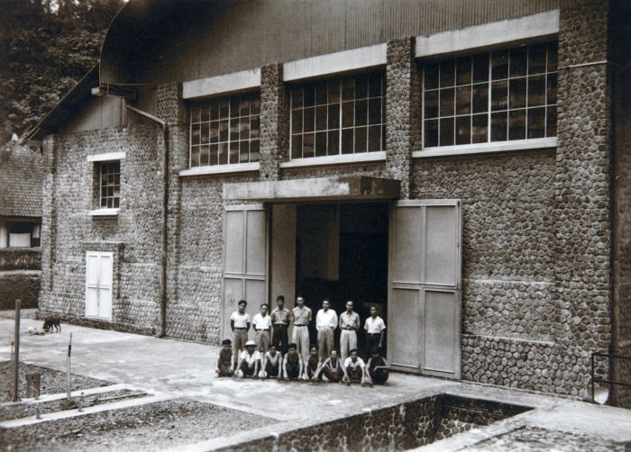 Group portrait of the employers at the ANIEM power station at Ketenger